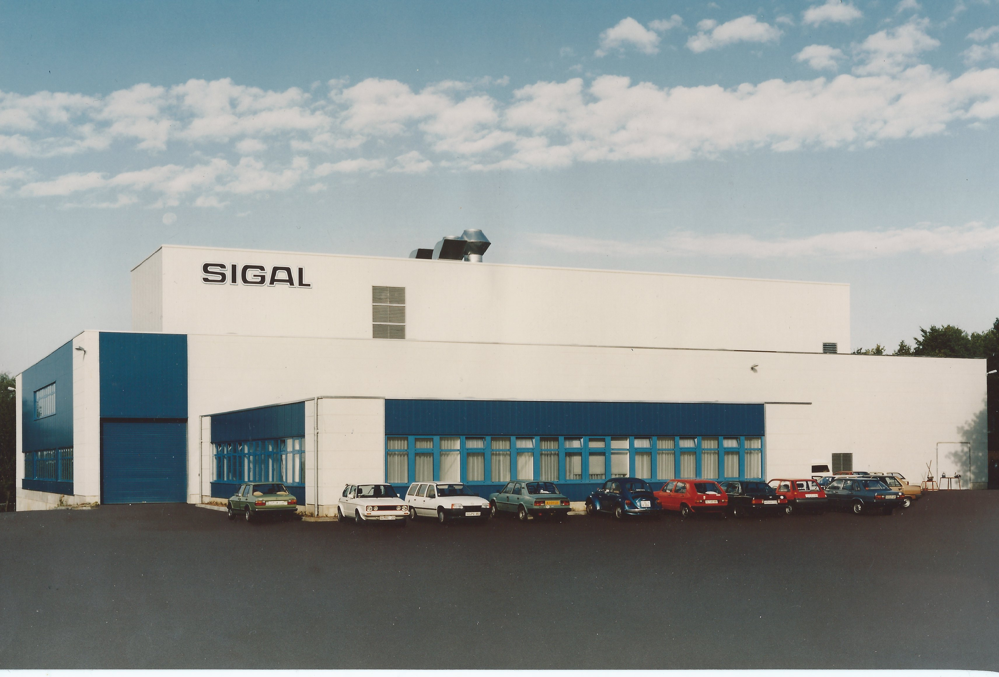 First Factory for the SIGAL-Galvano-Aluminium built 1988 in Bergisch Gladbach near Cologne - a former subsidiary of Interatom GmbH.